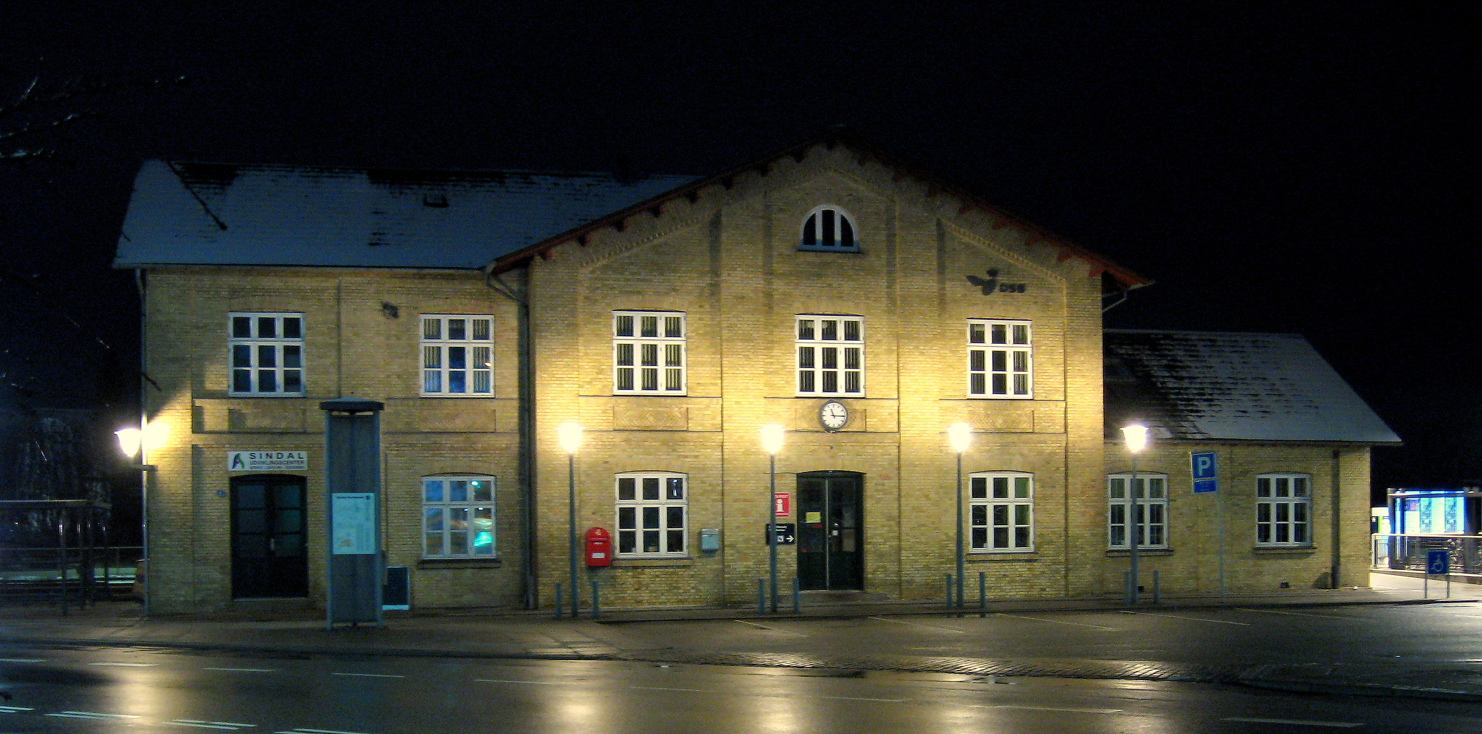 SINDAL [Denmark] railway station